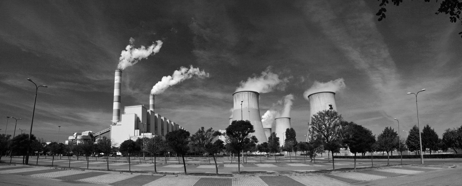 Power plant in Belchatow, Poland